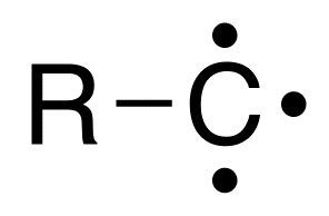 Structure of a generic carbyne in the quartet (tri-radical) form.